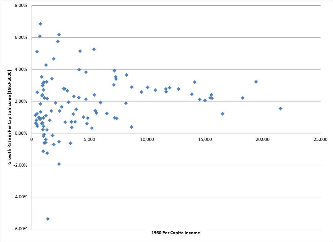 Chart showing initial income (1960) against geometric average of growth rate 1960 to 2000. Income measure is "PPP Converted GDP Chain per equivalent adult at 2005 constant prices" taken from the Penn World Tables v7.0. chart in MS Excel. See Chapter 8 Durlauf et al in "Handbook of Economic Growth" (2005) page 568. Algeria, Argentina, Australia Austria Bangladesh Barbados Belgium Benin Bolivia Botswana Brazil Burkina Faso Burundi Cameroon Canada Cape Verde Central African Republic Chad Chile China Version 1 China Version 2 Colombia Comoros Congo, Dem. Rep. Congo, Republic of Costa Rica Cote d`Ivoire Cyprus Denmark Dominican Republic Ecuador Egypt El Salvador Equatorial Guinea Ethiopia Fiji Finland France Gabon Gambia, The Ghana Greece Guatemala Guinea Guinea-Bissau Haiti Honduras Hong Kong Iceland India Indonesia Iran Ireland Israel Italy Jamaica Japan Jordan Kenya Korea, Republic of Lesotho Luxembourg Madagascar Malawi Malaysia Mali Mauritania Mauritius Mexico Morocco Mozambique Namibia Nepal Netherlands New Zealand Nicaragua Niger Nigeria Norway Pakistan Panama Papua New Guinea Paraguay Peru Philippines Portugal Puerto Rico Romania Rwanda Senegal Singapore South Africa Spain Sri Lanka Sweden Switzerland Syria Taiwan Tanzania Thailand Togo Trinidad & Tobago Turkey Uganda United Kingdom United States Uruguay Venezuela Zambia Zimbabwe